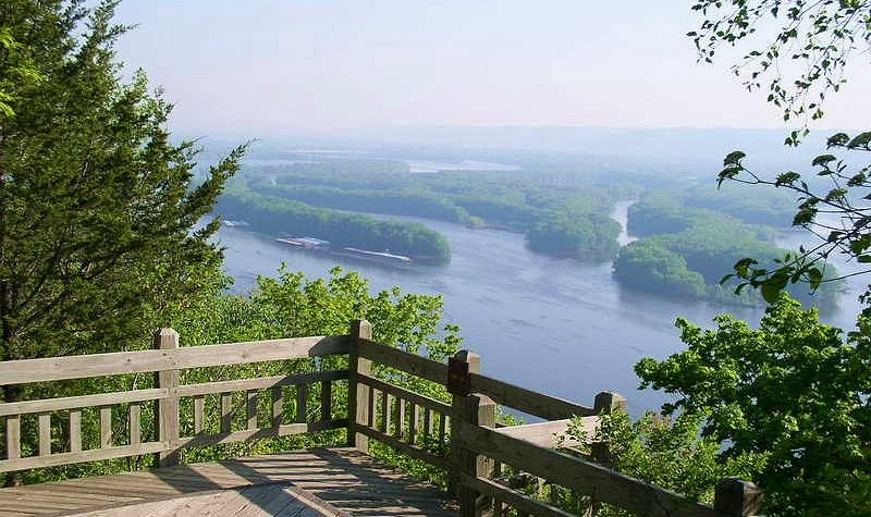 Observation platform over the Mississippi River in Pikes Peak State Park, Iowa, USA